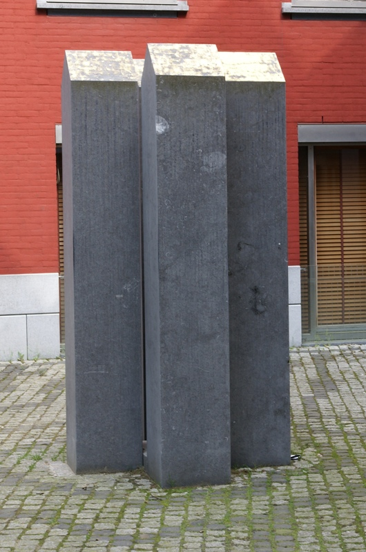 Sculpture, Kanunnikencour, Maastricht, The Netherlands. By Leon Wuidar, 1999.